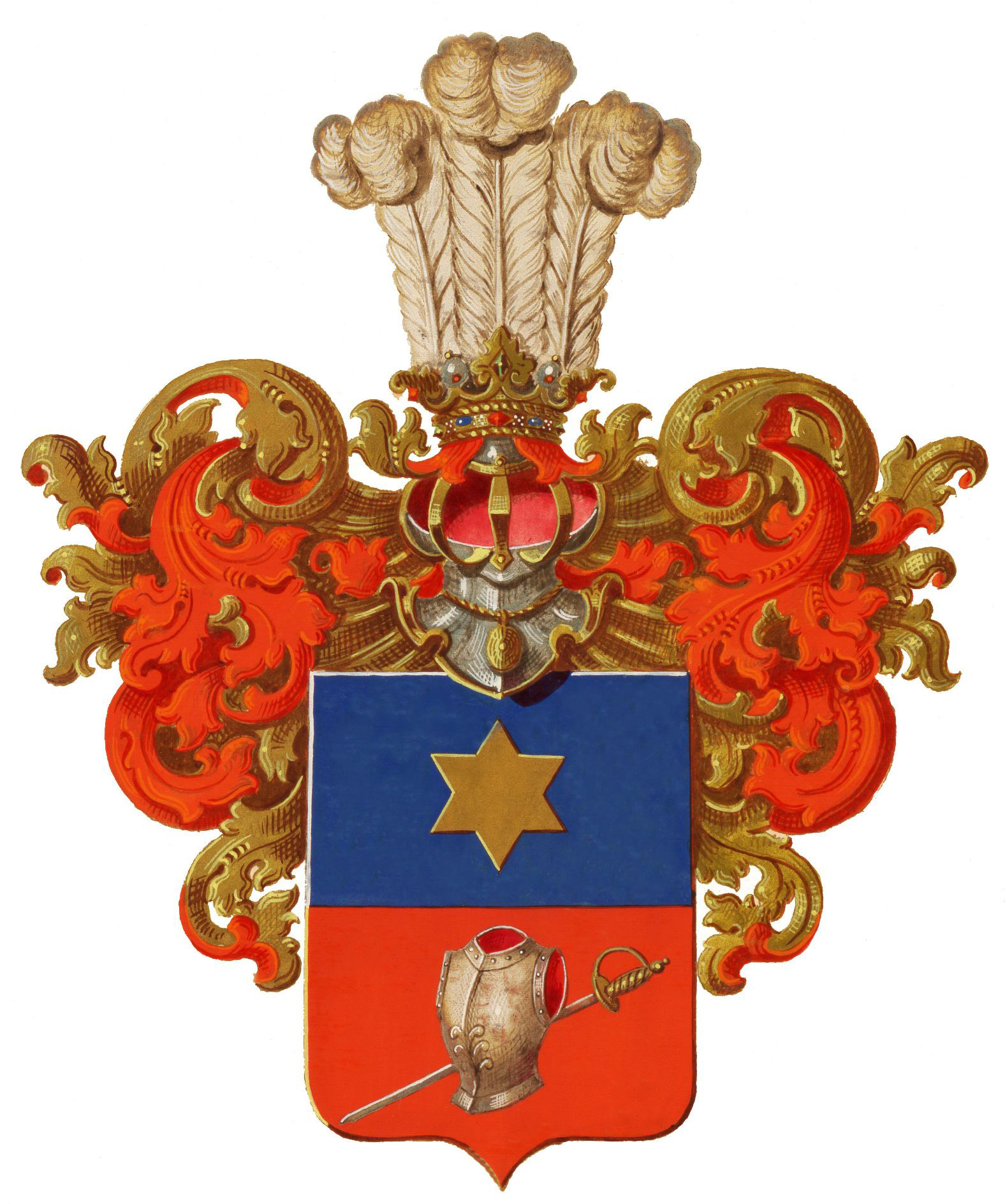 Coat of arms of the family Bolotnikov